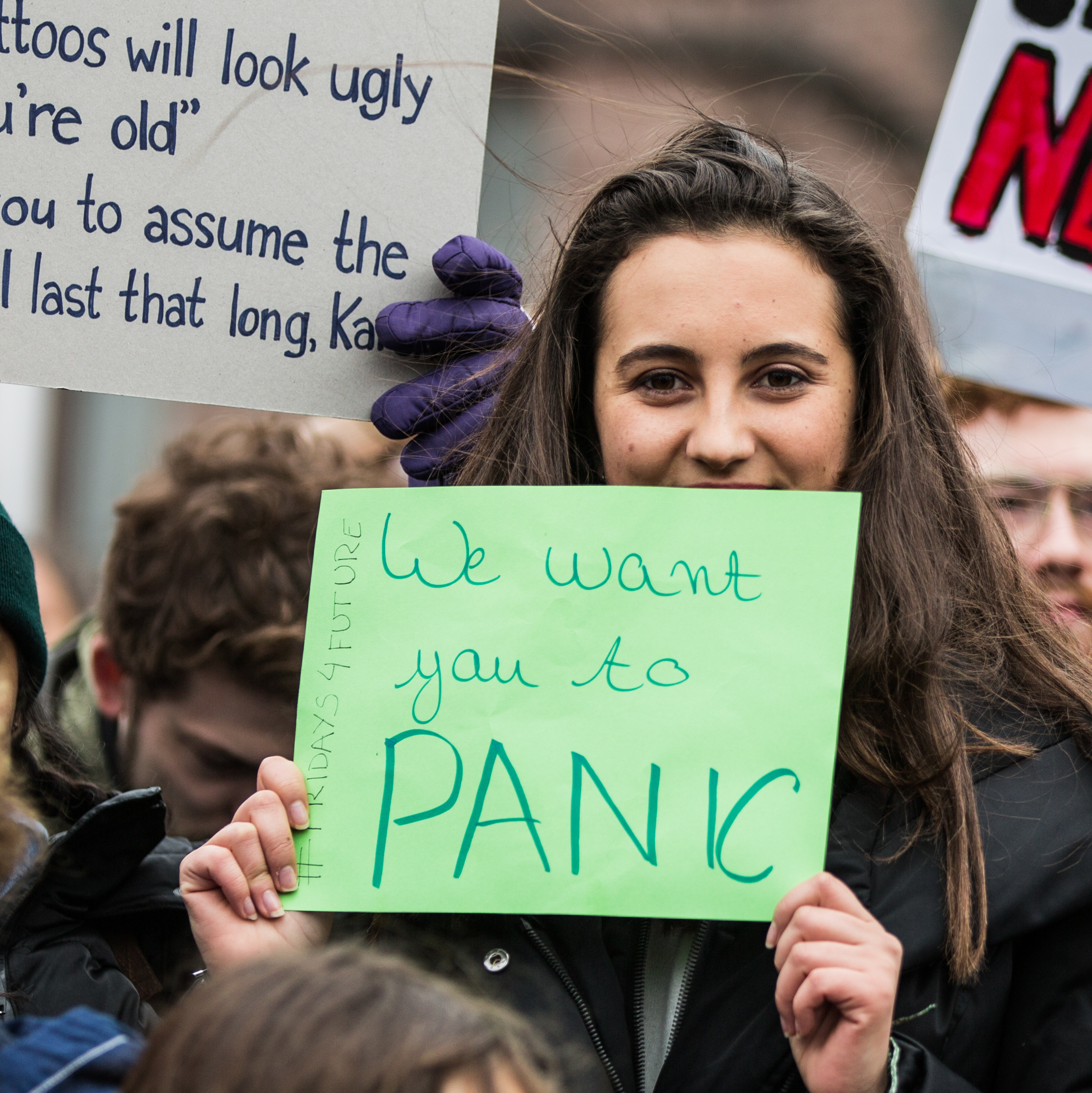 Toronto climate change activist Alienor Rougeot calling upon the public, with the youth, to take action in one of Fridays for Future's earlier climate strikes